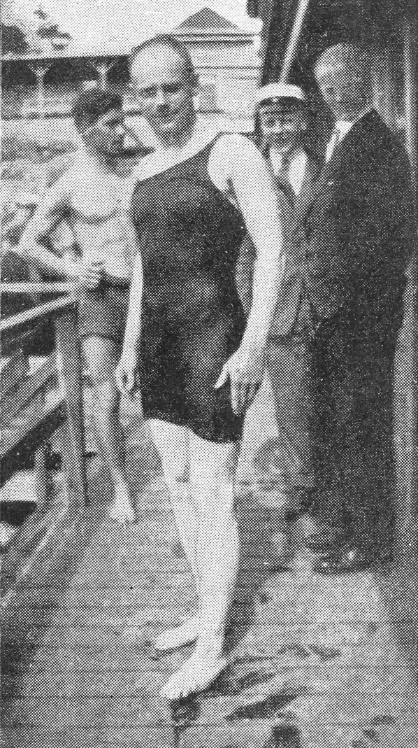 Toivo Aro (1887–1962), Finnish Olympic diver, during his competitive years, circa 1905–1912